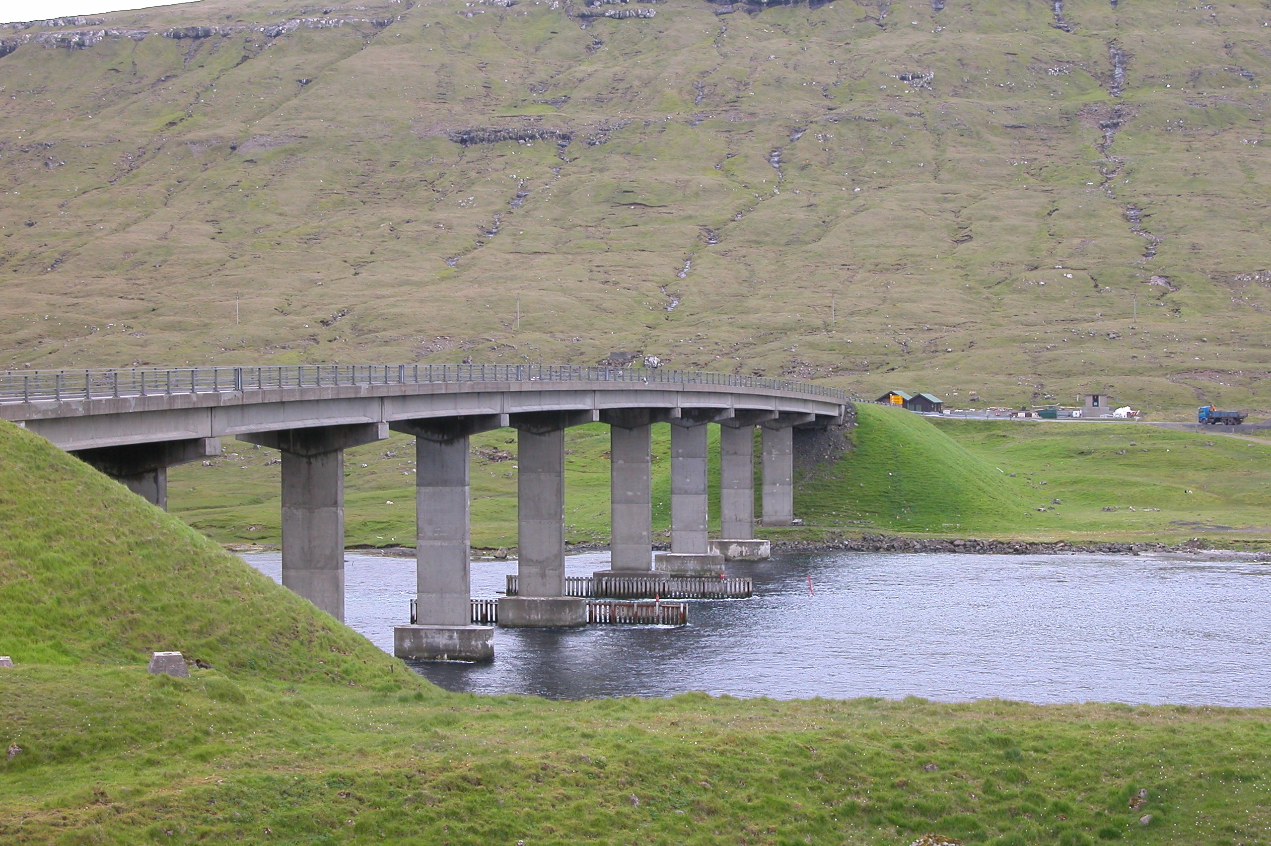 Bridge over the strait Sundini, called Brúgvin um Streymin at Oyrarbakki/Norðskáli, connecting Streymoy and Eysturoy, Faroe Islands